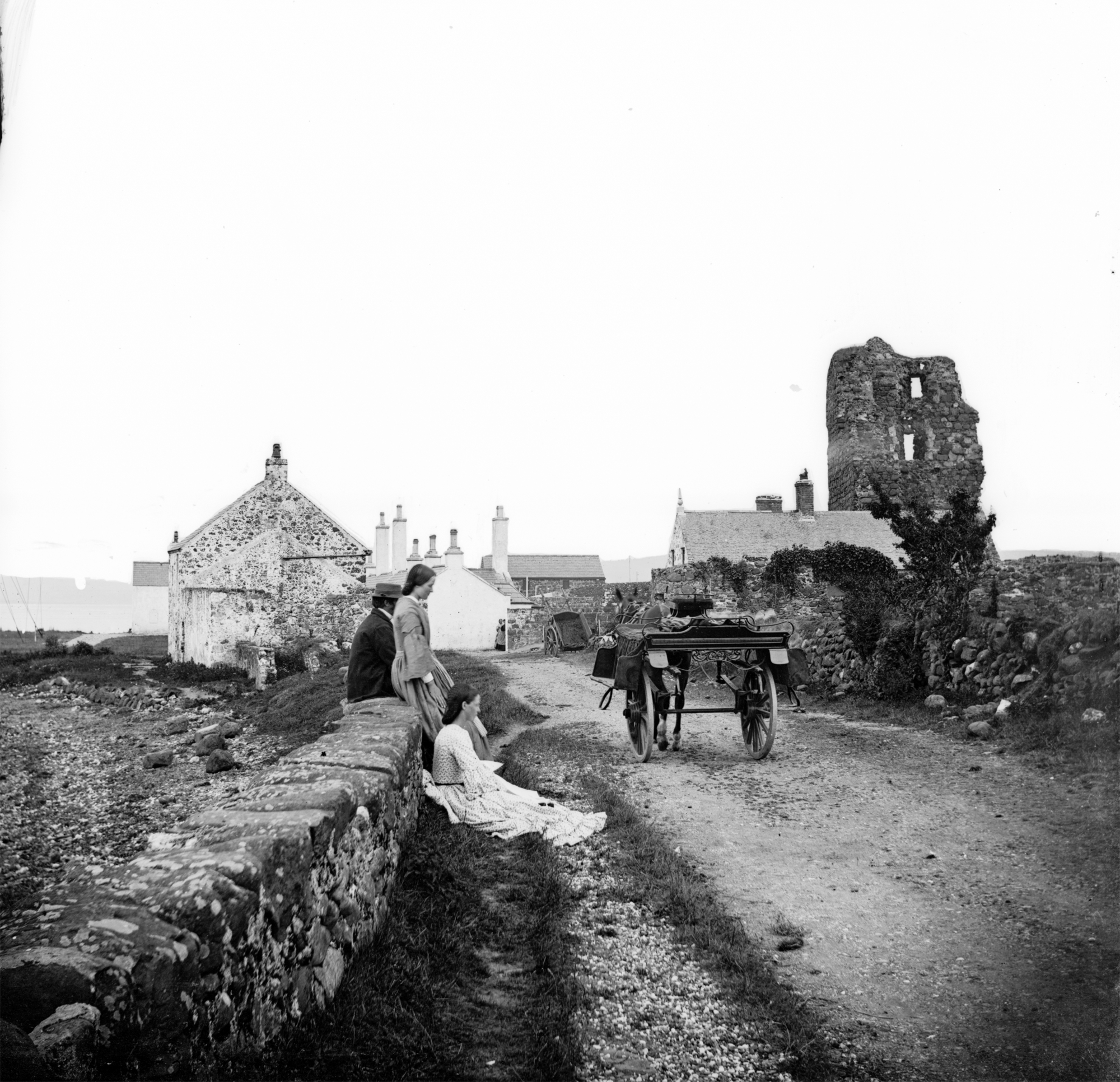 Hope none of you are eyeing the foreground uneasily to search for a severed limb, but in our catalogue, this image is titled: "Road approaching village, ruin to right, side-car, tourist party, a foot in foreground" so couldn't resist it as a title. That said, we started off this week with a toughie (technical term). We didn't know where this was taken, but I threatened that if you all solved this mystery with relative ease, I would eat my big feathery flouncy Flickr Hat! Think I can get away without eating that hat, as it did take a while for this one to be solved. Thanks to Flying Snail for suggesting Olderfleet Castle near Larne, Co. Antrim. Date: 1860-1883 NLI Ref.: STP_0470